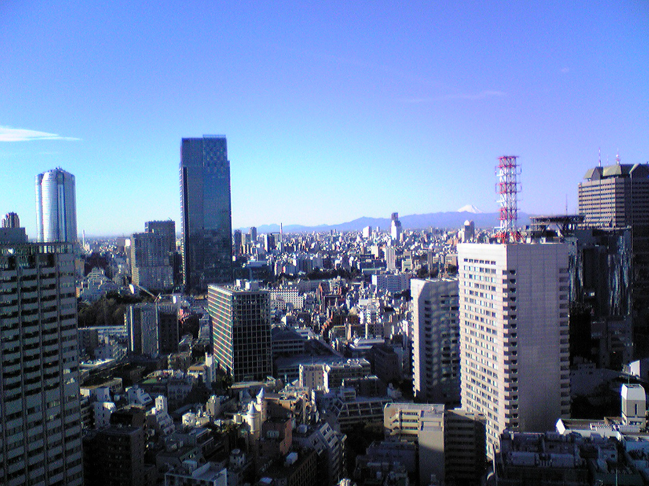 sannnoupark